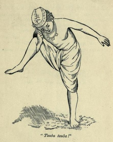 Punishment or atonement in India